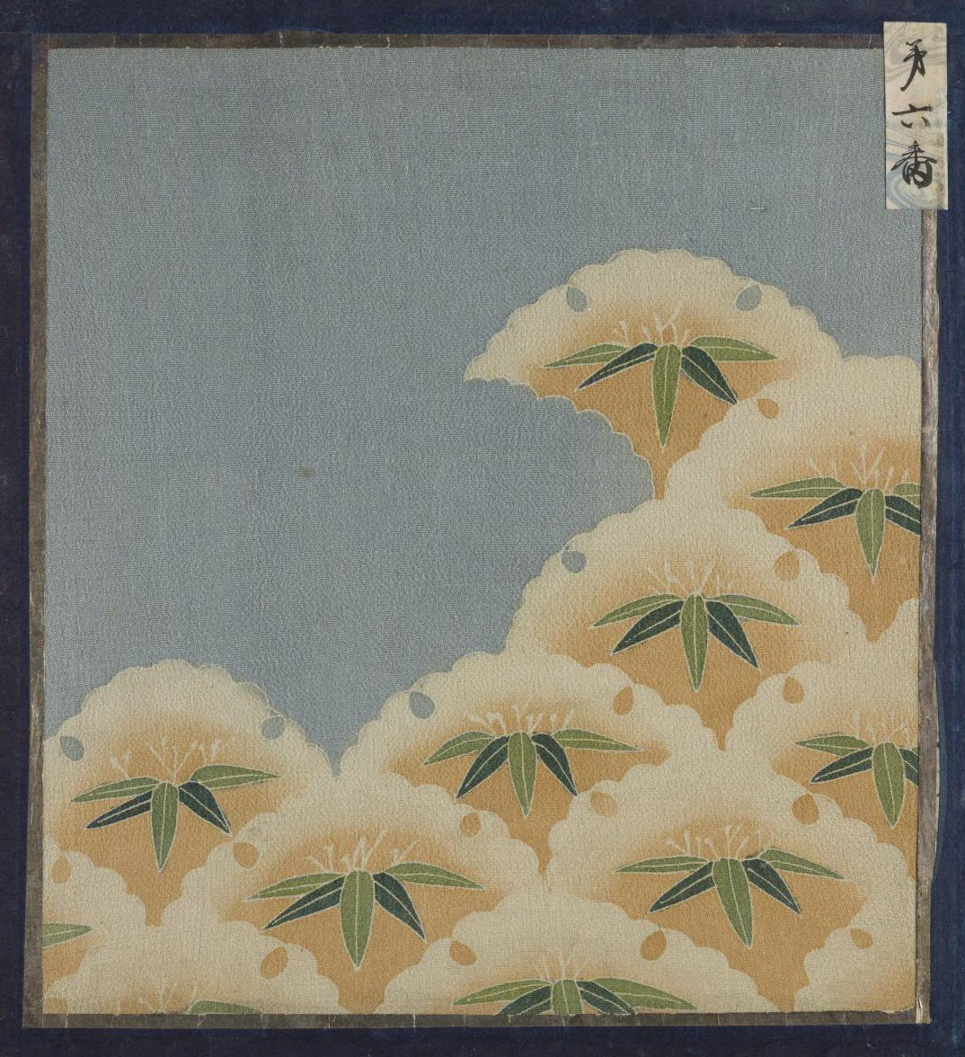 [Detail] Japanese decorated silk. In the Mary Ann Beinecke Decorative Art Collection. Sterling and Francine Clark Art Institute Library.